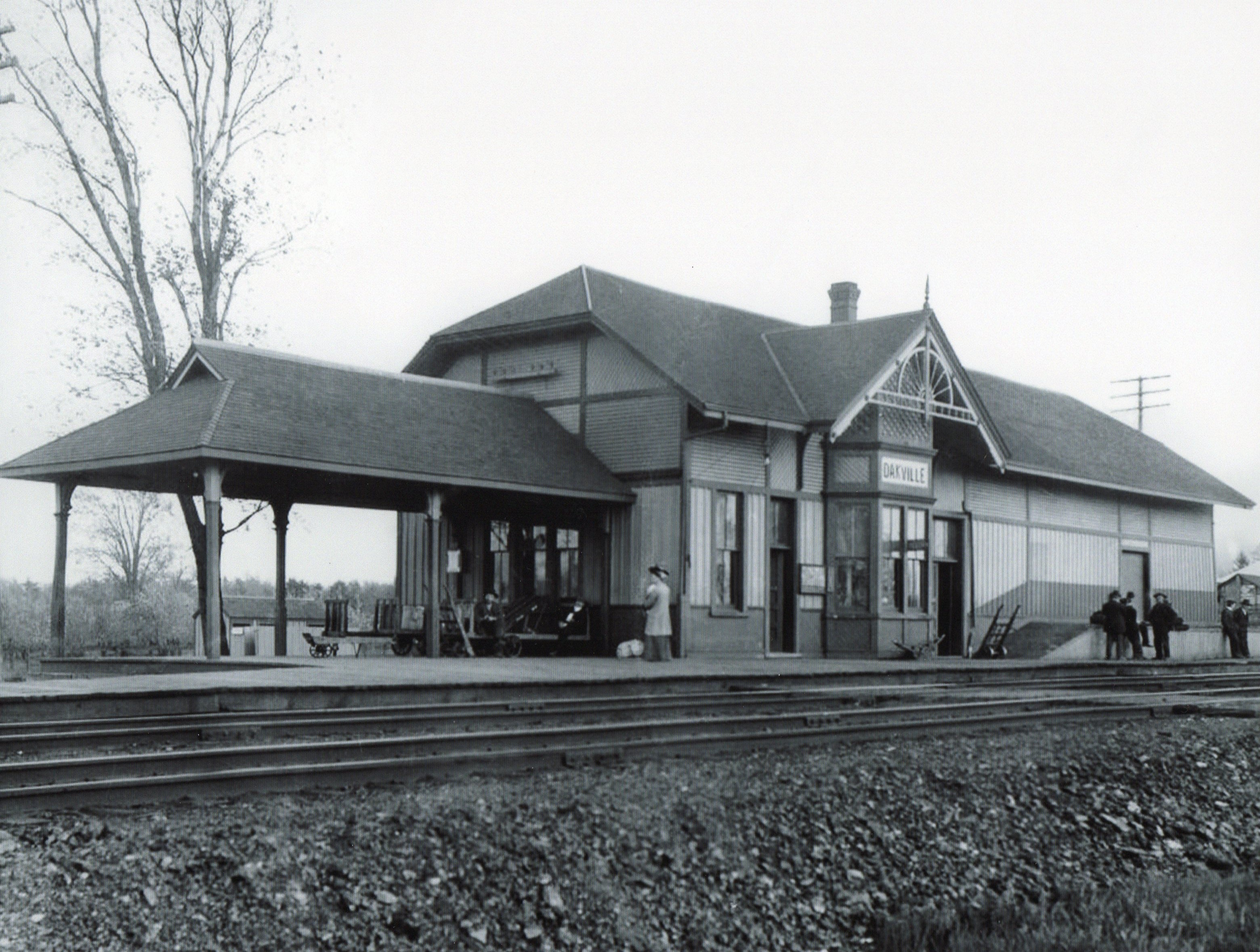 Oakville Ontario Rail Station - circa 1920